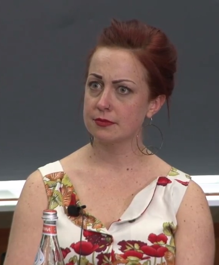 American exoplanetary astronomer Sarah Ballard addressing barriers to gender equality in the sciences and steps to overcome them, in a panel discussion at the Massachusetts Institute of Technology.